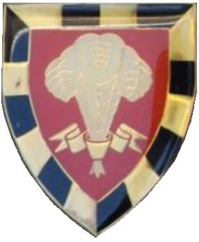 SADF era 1 SAI insignia ver 3.j